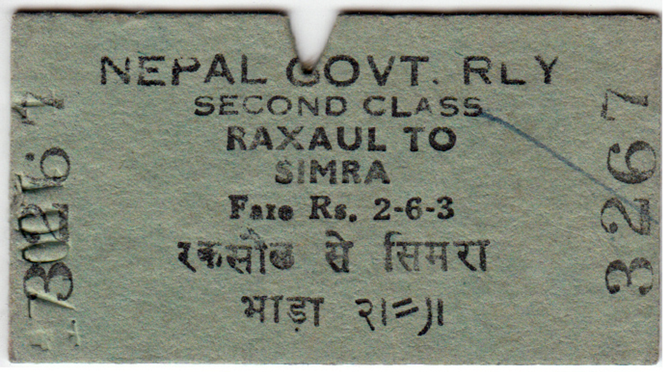 Train ticket from Raxaul to Simra of the Nepal Government Railway.